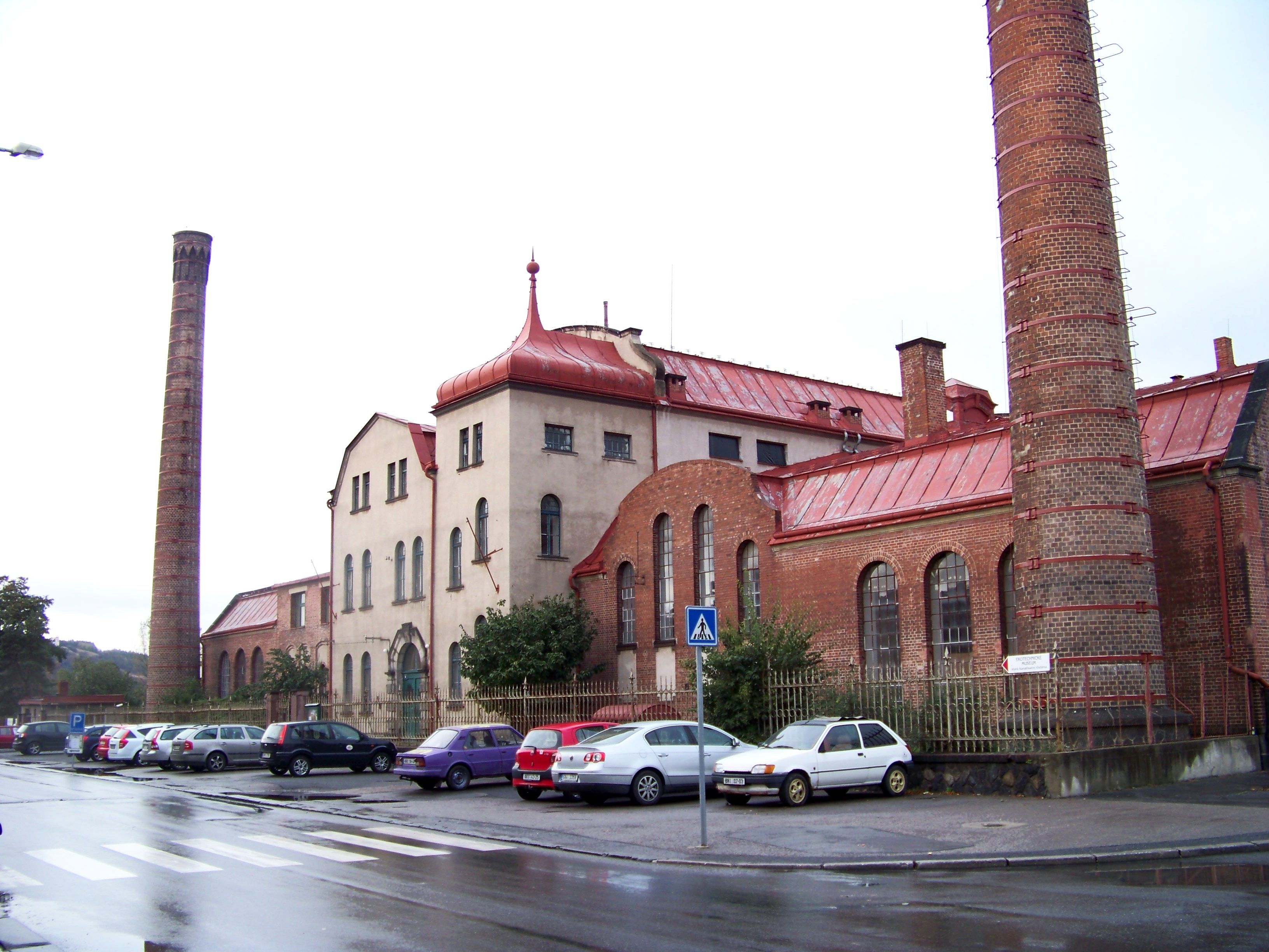 Bubeneč, Prague, the Czech Republic. Central wastewater treatment plant. - Google Maps - Google Earth